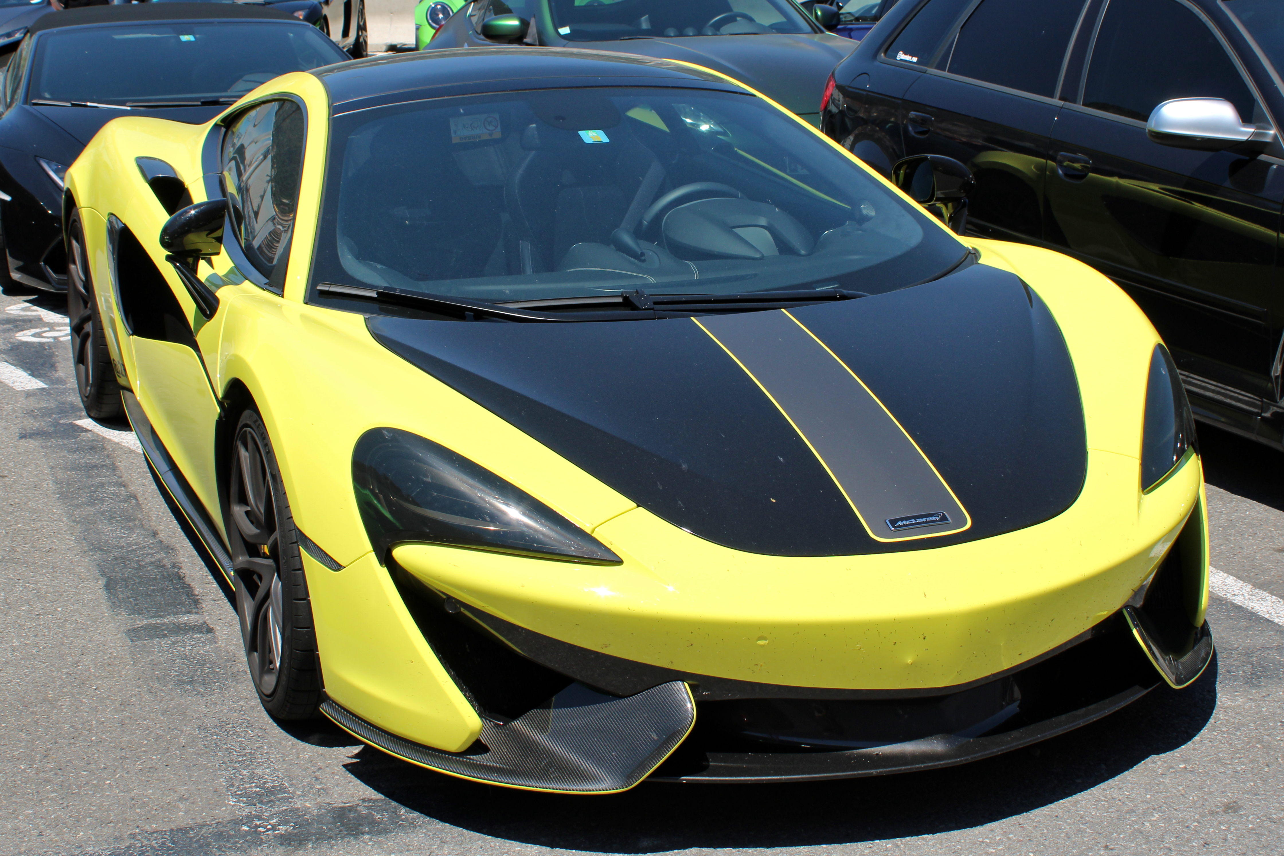 McLaren 570GT in Monaco